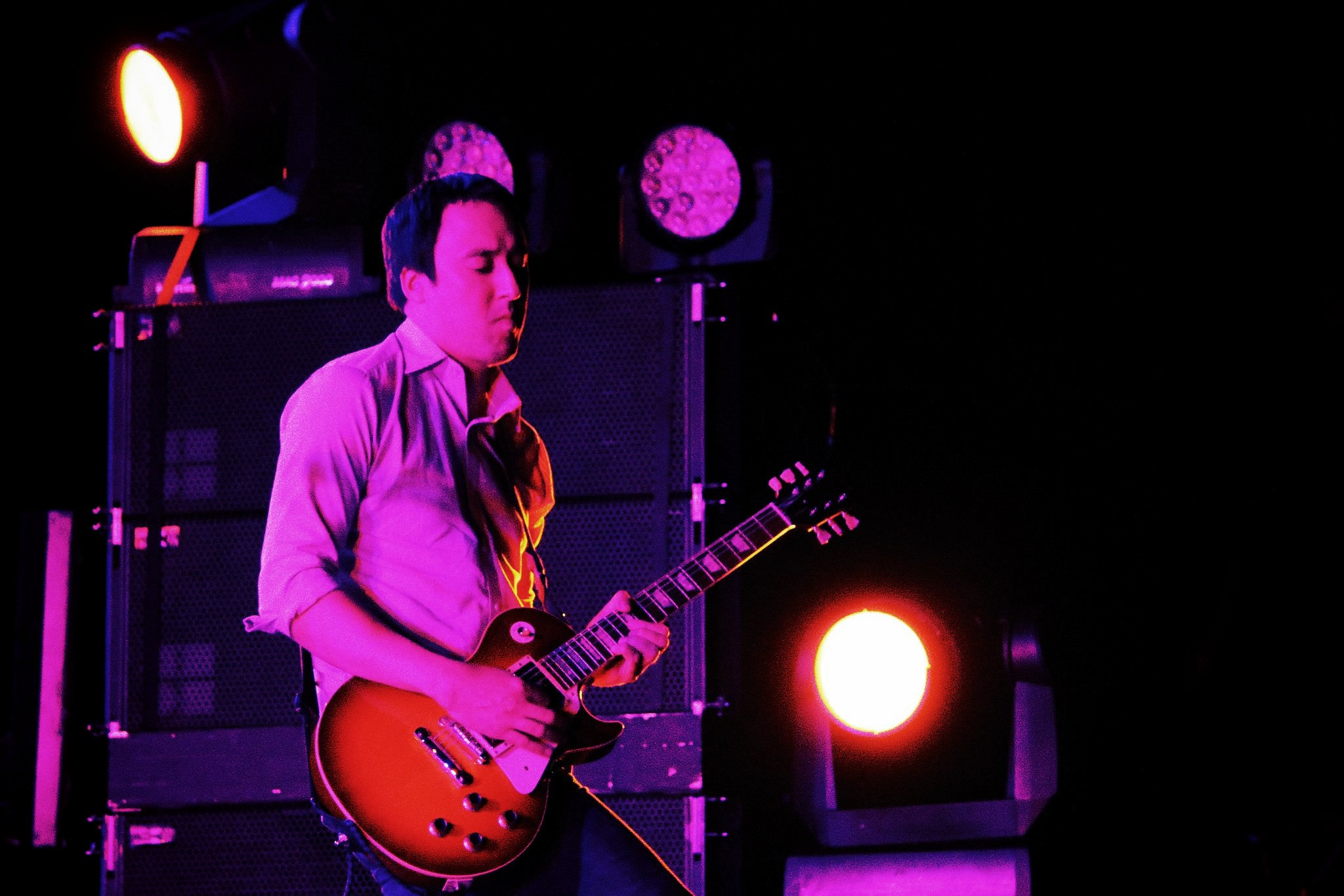 The Smashing Pumpkins: October 28, 2012 - Bell Centre, Montreal, Quebec